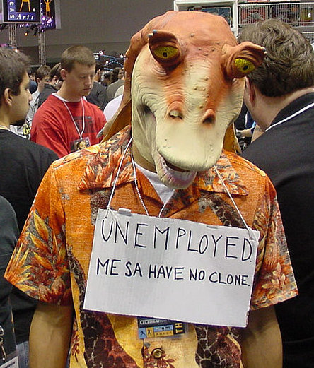 Star Wars Celebration II - me with an unemployed Jar Jar